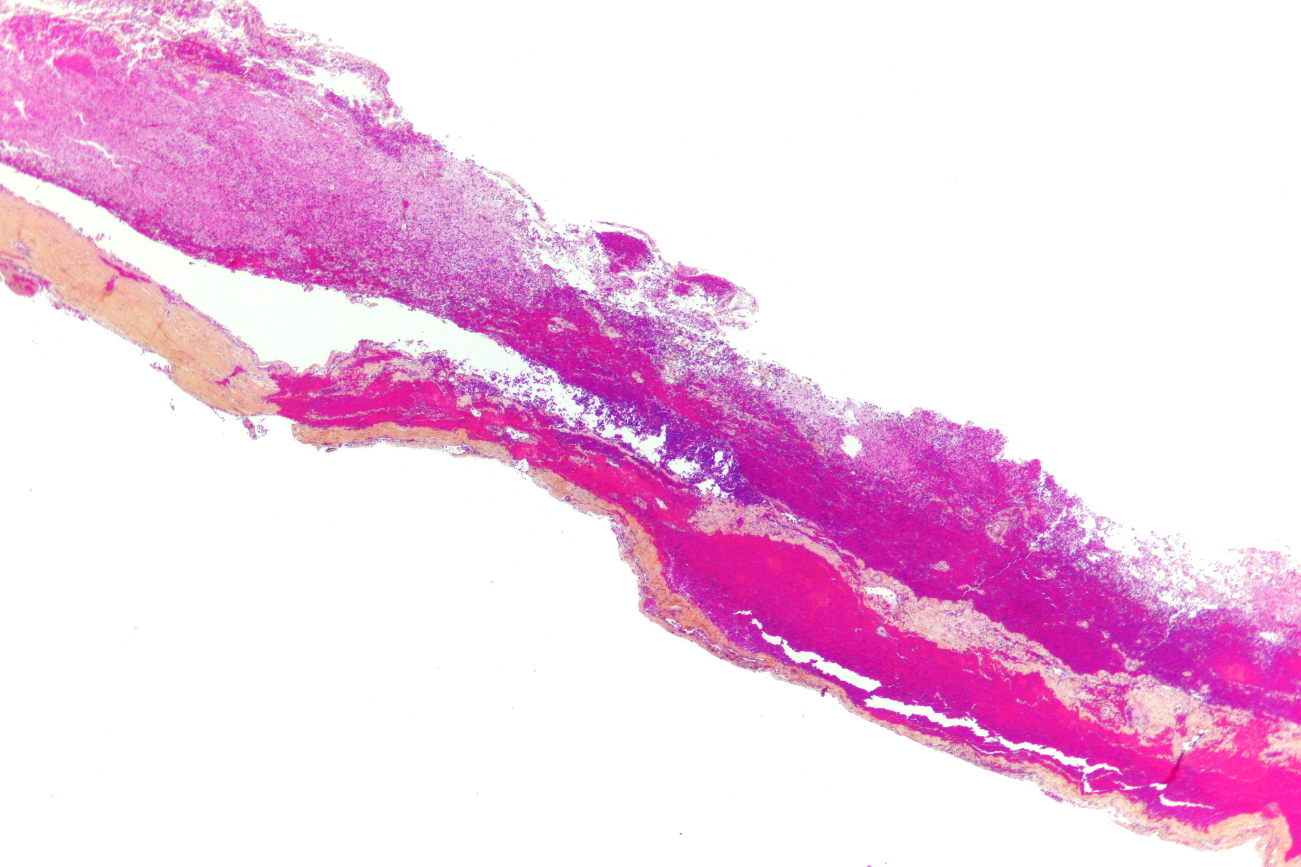 Very low magnification micrograph of a subdural hematoma. HPS stain. Related images Low mag. Intermed. mag.